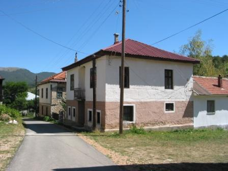 A street in Lazaropole